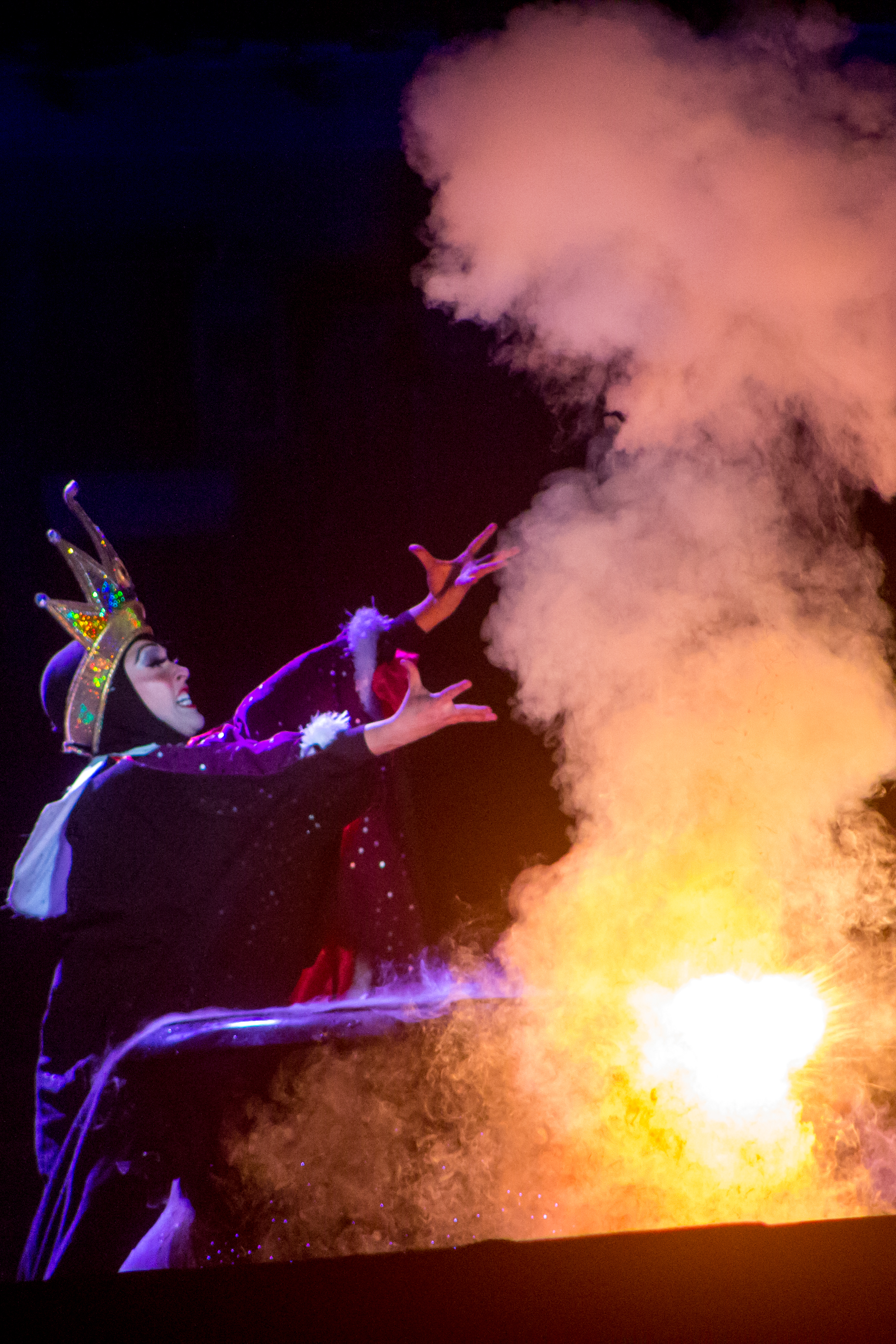 Part of Fantasmic as seen from the Rivers of America.